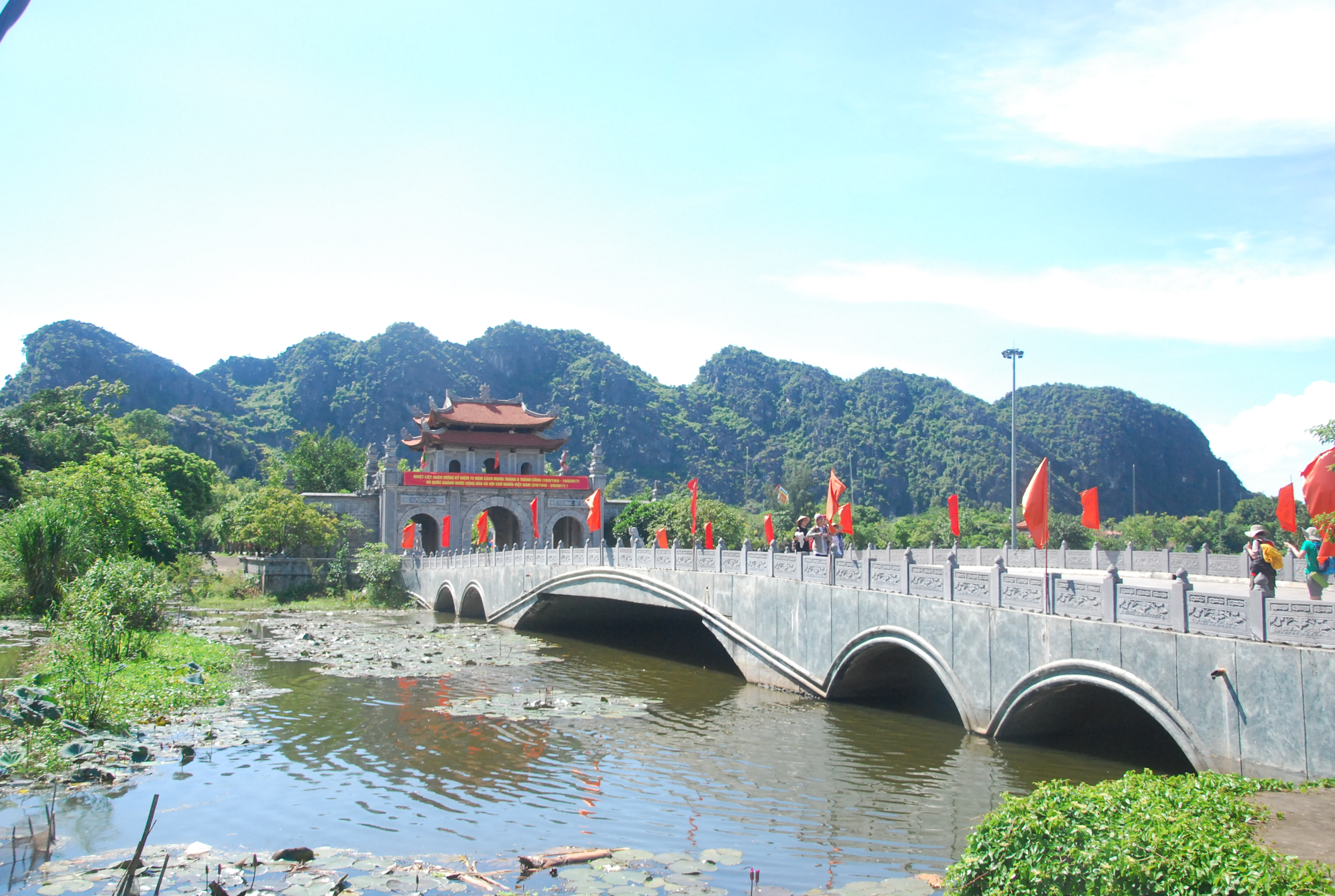 Access road to Hoa Lu Ancient Relic Complex in Ninh Binh